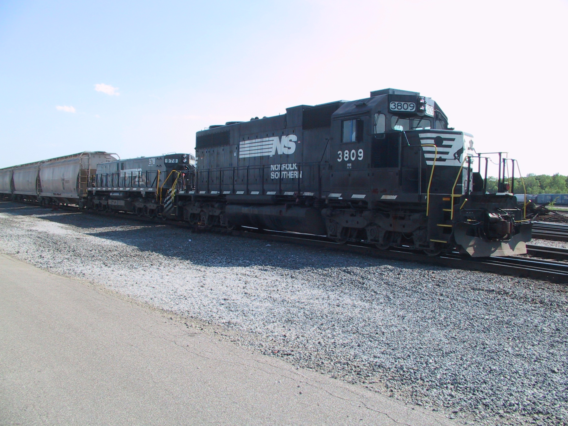 NS SD38 No. 3809 and NS MT6 slug No. 978 at Buckeye Yard in Columbus, Ohio.